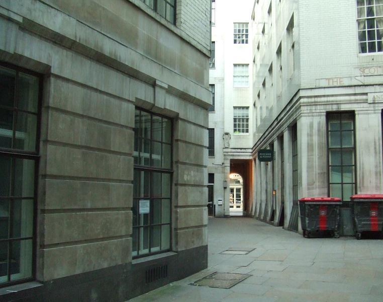 Change Alley, London. From blog post London's Back Passages.